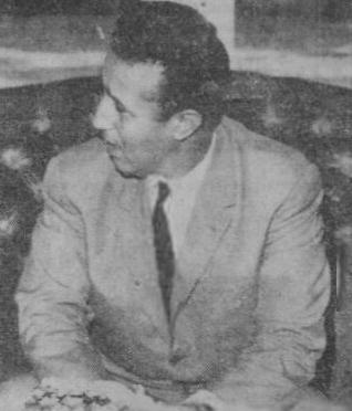 Ahmed Ben Bella